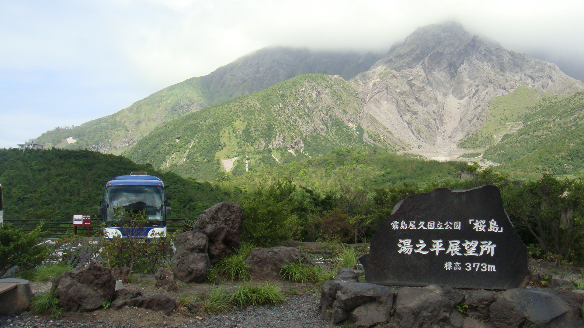 Sakurajima volcano and native flora — from Yunohira Tenbojo, Japan.